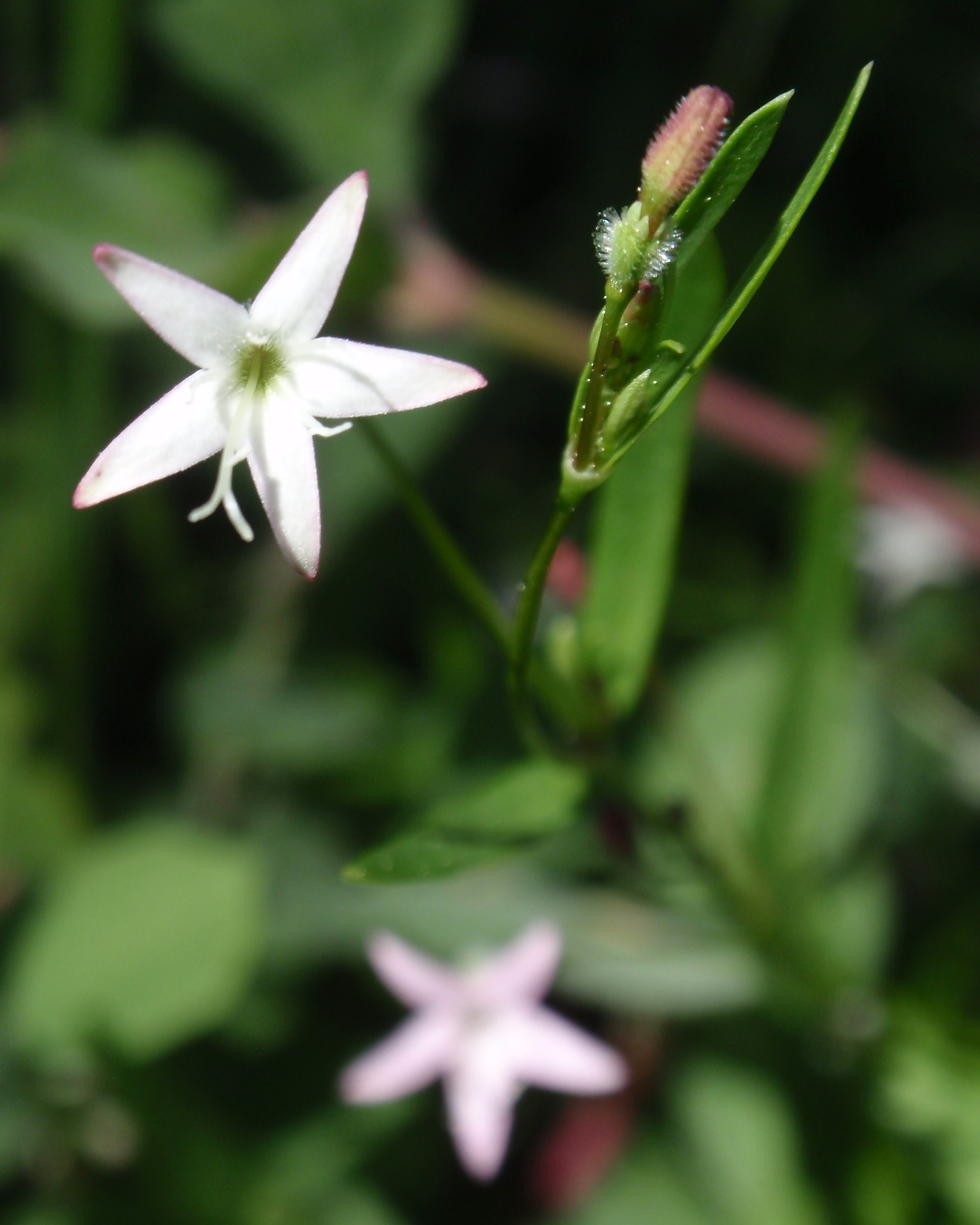 Kelloggia galioides — Shining fleabane. Blooming in Plumas-Eureka State Park in the Sierra Nevada, located within Plumas County, California.